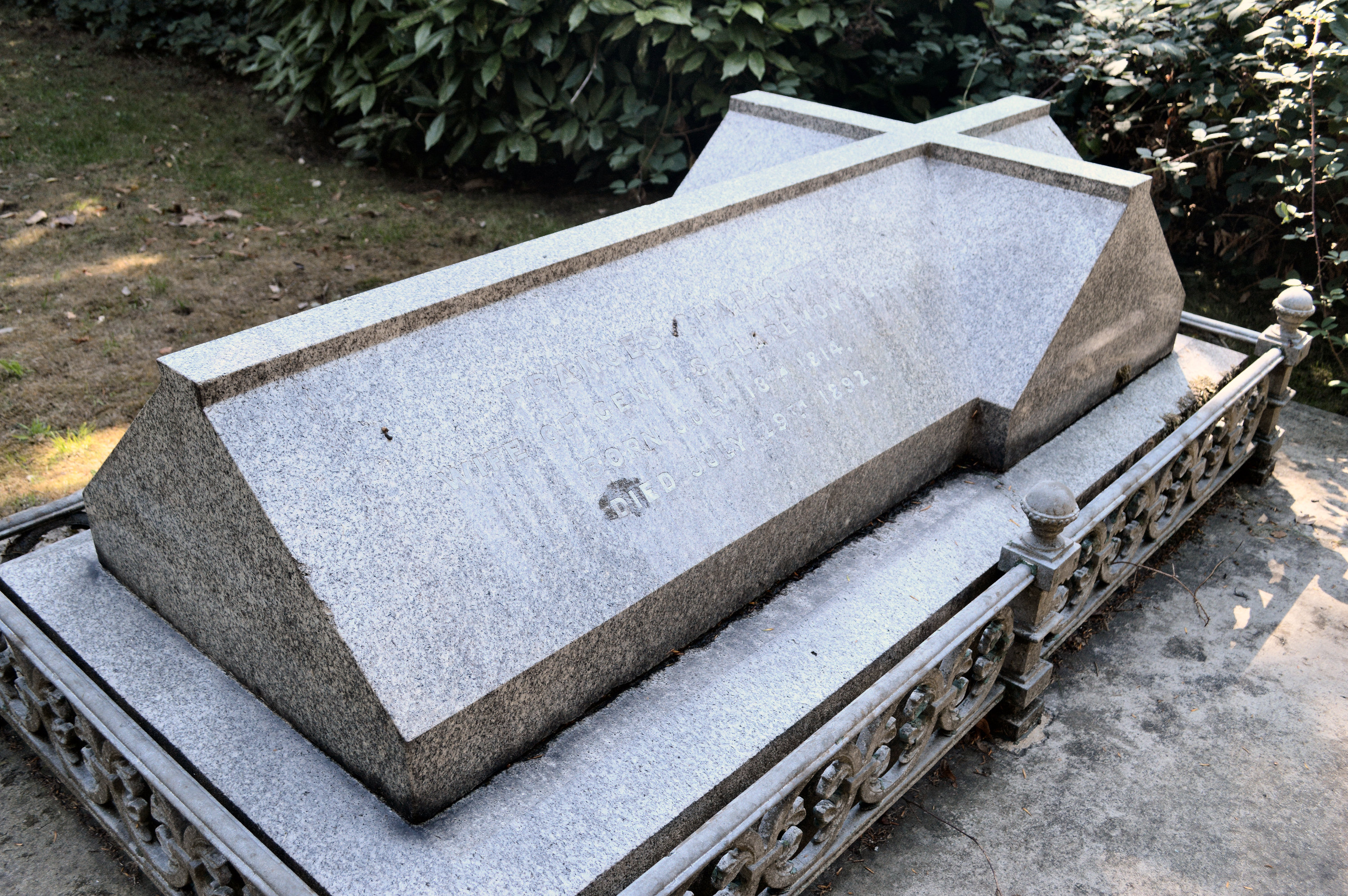 University of Roehampton, Lyne-Stephens Mausoleum, tomb of Edward Stopford Claremont